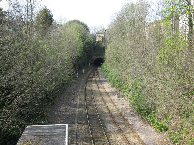 Clifton Down tunnel View of the railway from St. John's road bridge. The railway enters a long tunnel under Clifton Down on the way to Avonmouth.